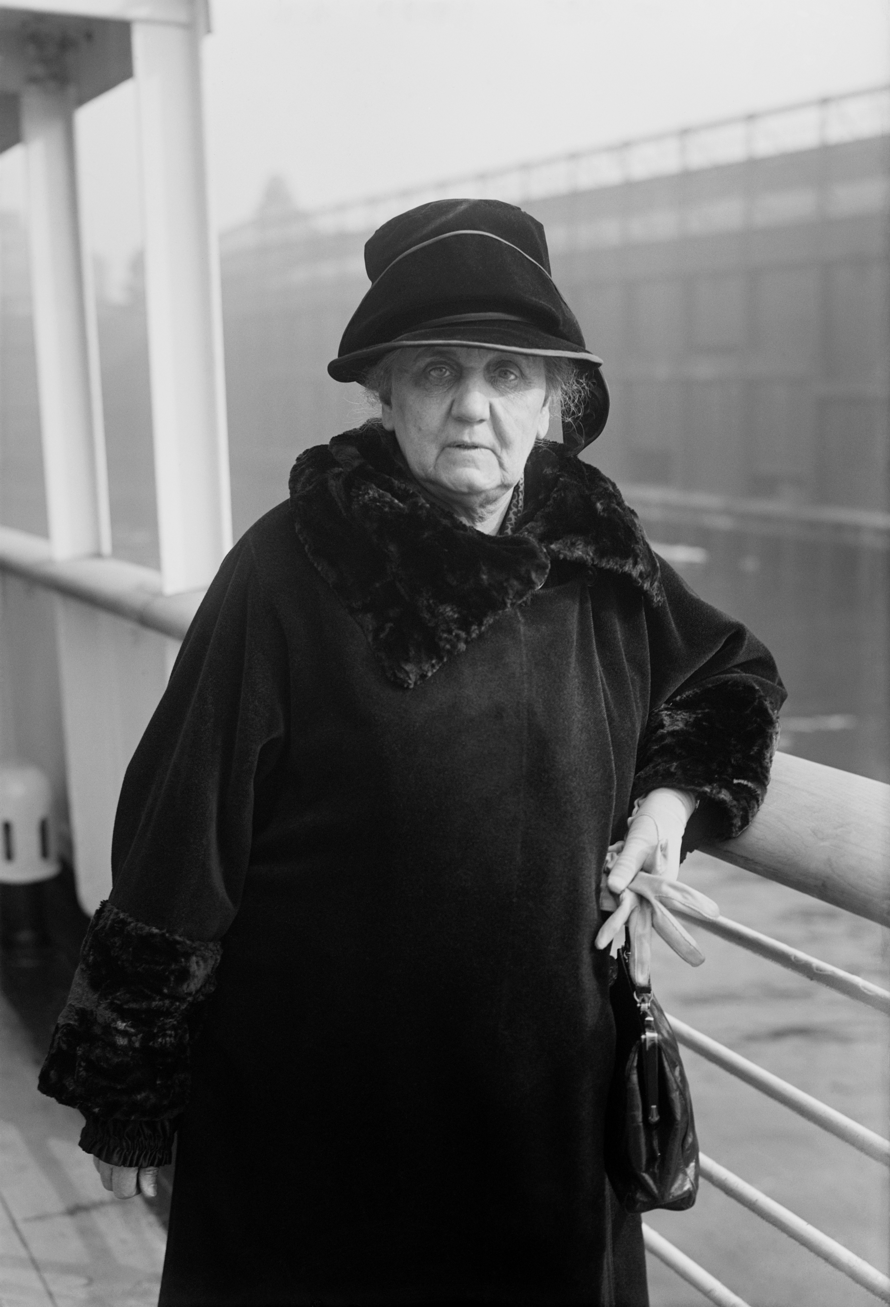 Sociologist, suffragette, social worker, philosopher, and Nobel Peace Prize winner Jane Addams, in 1924 or 1926 (the way the date is written (mirror image, at top of the TIFF version) is probably 3-2-26, but could be 3-2-24.